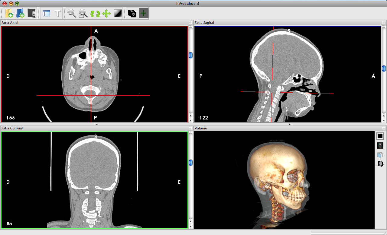 InVesalius is an open source 3D medical imaging reconstruction software. This printscreen represents a cranium, acquired with Computed tomography, and reconstructed with InVesalius. It was generated under MacOS X.